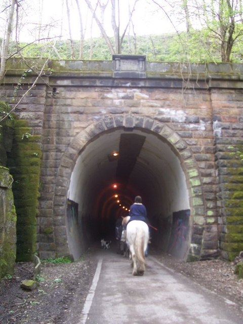 Trans Pennine Trail at Thurgoland Tunnel The Trans Pennine Trail follows the course of a disused railway track here. The capstone over the tunnel entrance is inscribed 'LNER 1947', but the keystone in the archway is inscribbed 'BR 1949'.